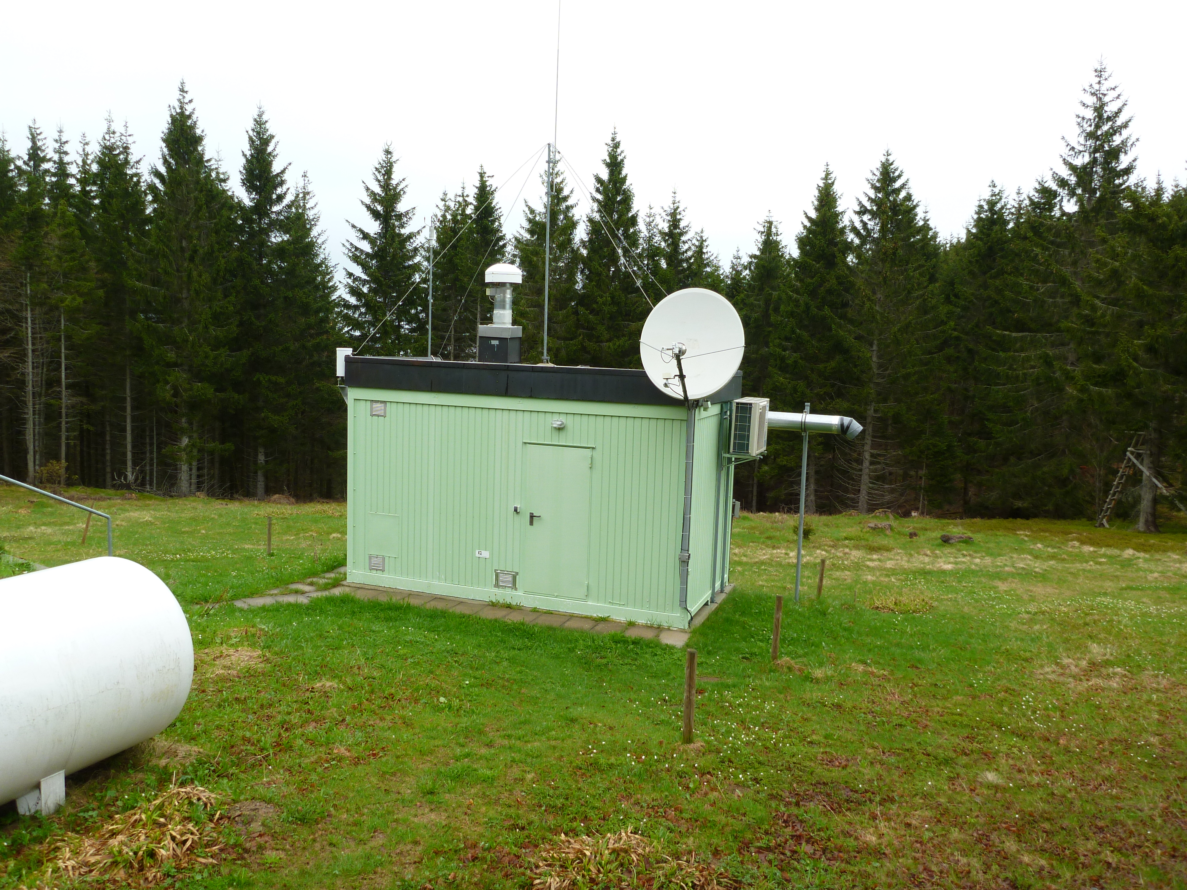 CTBTO radionuclid station on mountain Schauinsland near Freiburg on Bundesamt für Strahlenschutz site